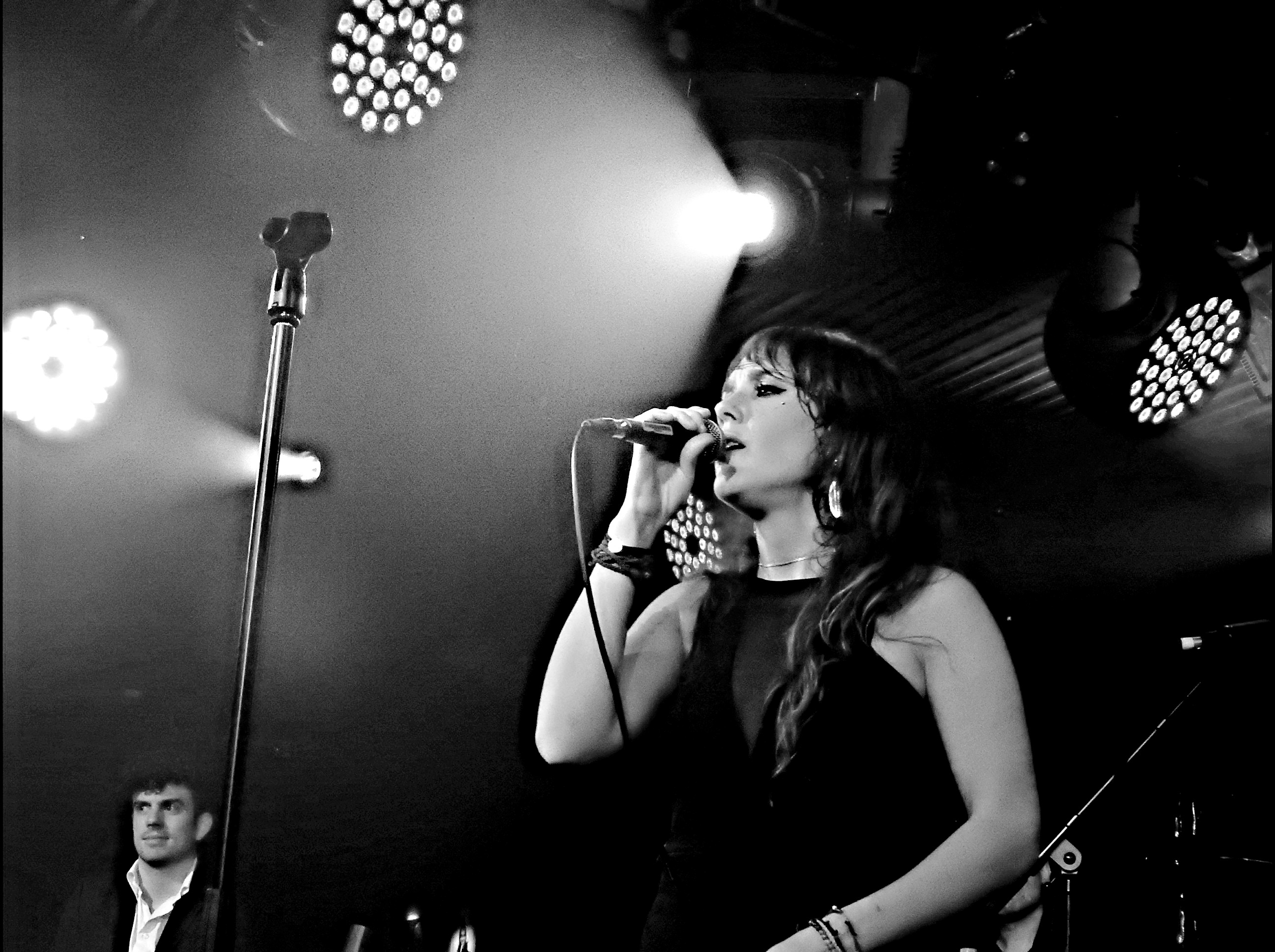 Zaz, Under the Bridge, London